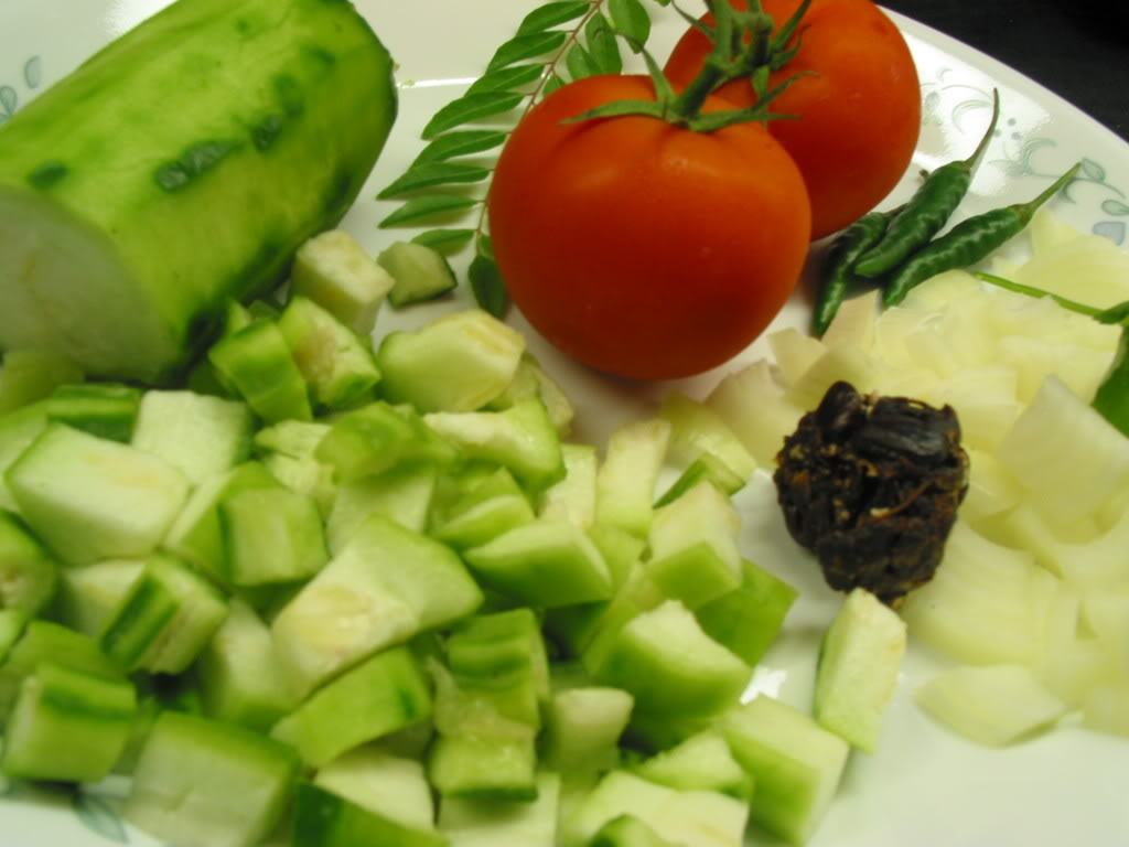 ormally they use milk ( palu posina beerakai kura ) when they cook with ridge gourd, but in this recipe i am using tamarind. This Beerakaya pulusu curry is a one pot dish which is so simple yet quickly adds up to good health and great taste. The unique texture of ridge gourd when cooked and the zing from the tamarind makes this curry a hit. Another important addition to this curry is Fenugreek Seeds aka Methi Seeds which adds so much flavor to the curry( Dont cook this curry if you dont have fenugreek seeds on hand!! )